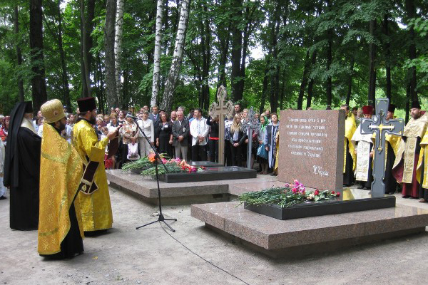 Moleben memorial on the graves of P.Kulish and H.Barvinik. Historical-memorial complex Hannyna Pustyn, Borzna, Ukraine